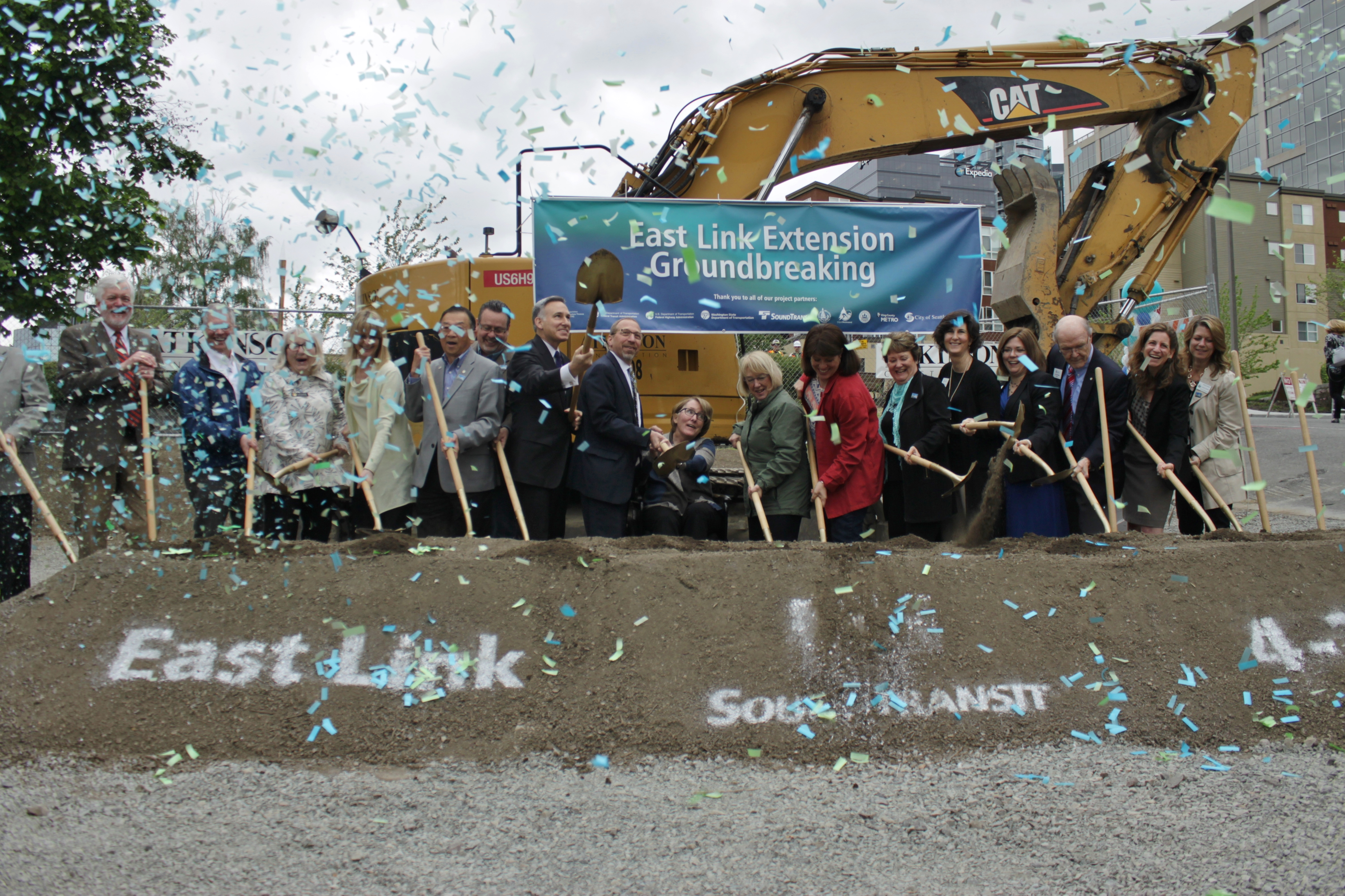 The groundbreaking of Sound Transit's East Link light rail project in Bellevue, Washington.